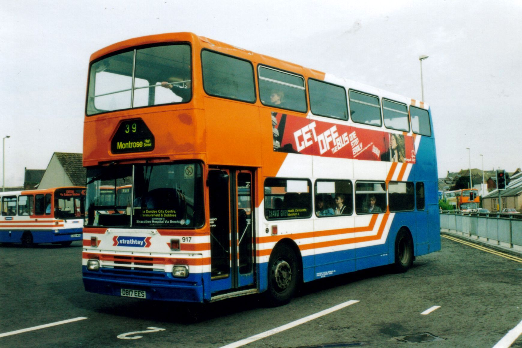 Strathtay Scottish bus 917 (reg. D817 EES), a 1987 Leyland Olympian double-decker with Alexander RL bodywork, pictured in Arbroath bus station. It was delivered new to the company, intitially numbered SO17.